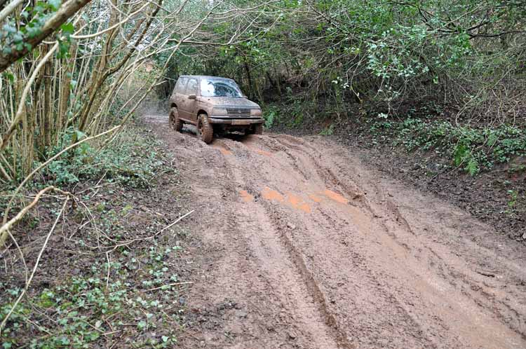 Off road pay and play course at Treetops Sporting Ground, Coedkernew, Newport